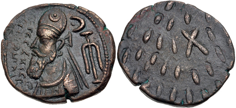 KINGS of ELYMAIS. Phraates. Early-mid 2nd century AD. Æ Tetradrachm (28mm, 14.49 g). pr’’t mlk’/br wrwd mlk’ (Phraates king/son of Orodes king) in Aramaic in two lines to left, diademed bust left, wearing tiara decorated with pellet-in-crescent; to right, pellet-in-crescent above anchor with two crossbars / X and field of parallel dashes. van’t Haaf type 14.7.1-2a = Alram 471 = Le Rider, Suse, pl. LXXIII, 9 = BMC 23 (same obv. die); Sunrise –; VAuctions 331, lot 98 (same obv. die). EF, brown patina. Extremely rare with pellet on obverse, and the finest of three known specimens.